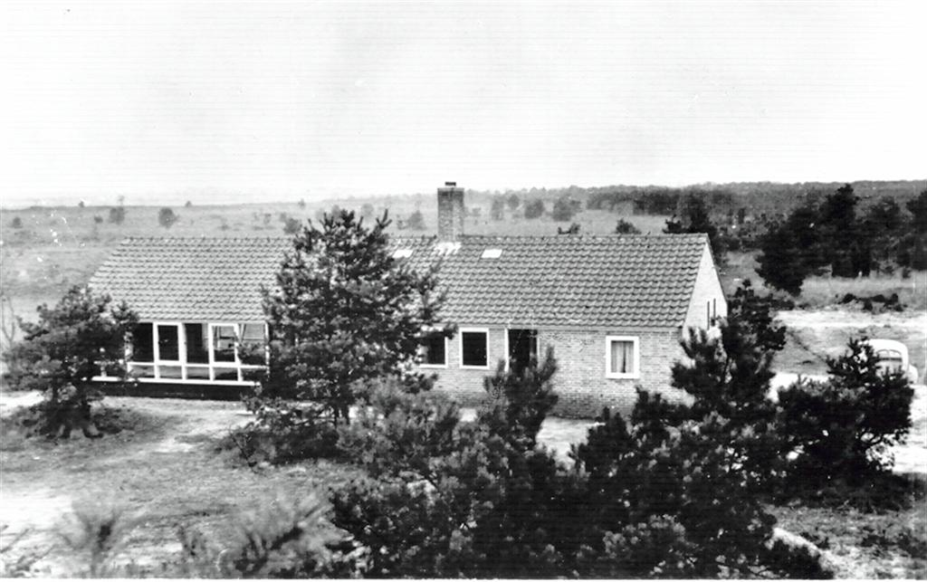 De Marke in 1958